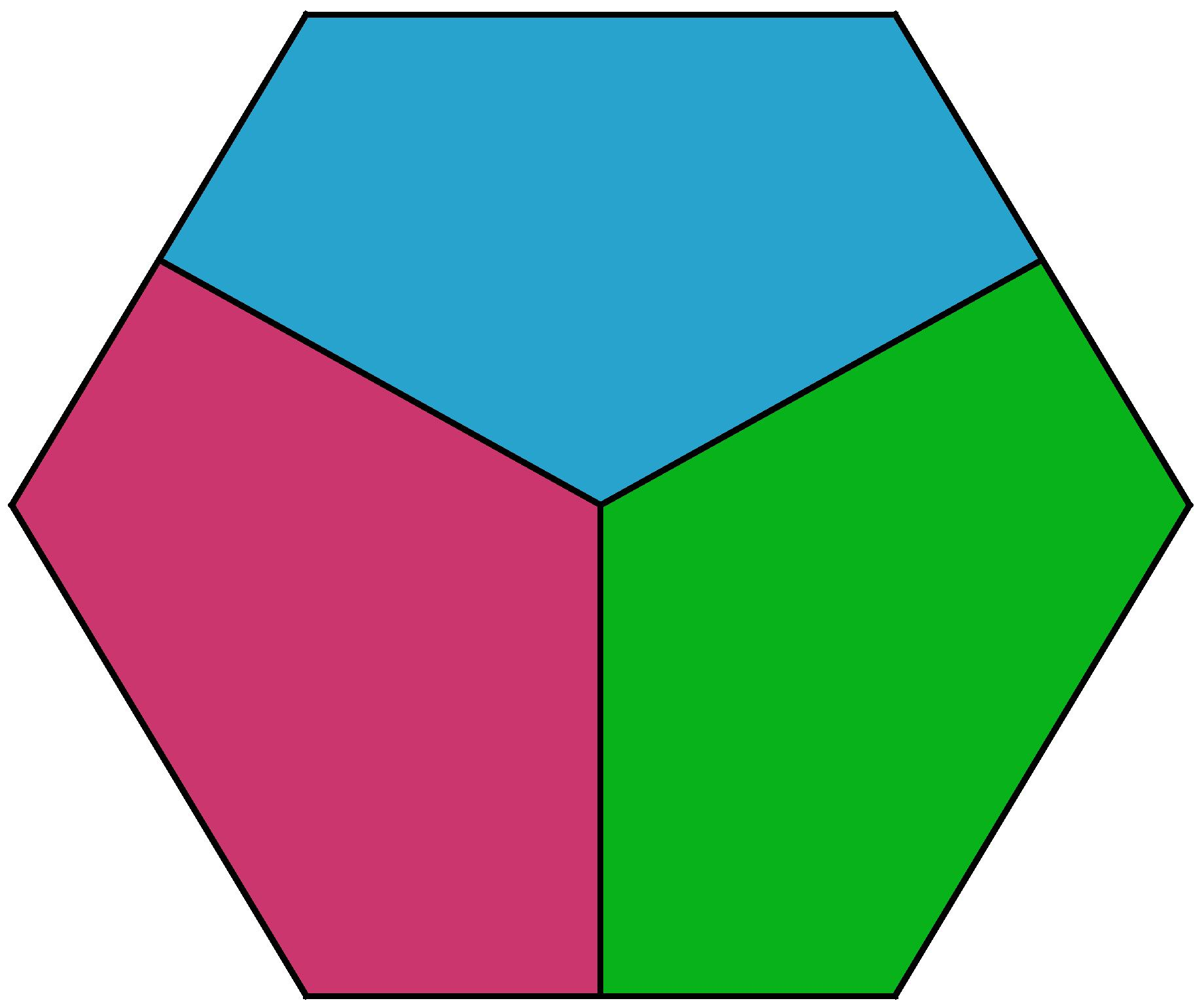 An example of hexagon dissection in the Borsuk's Conjecture.